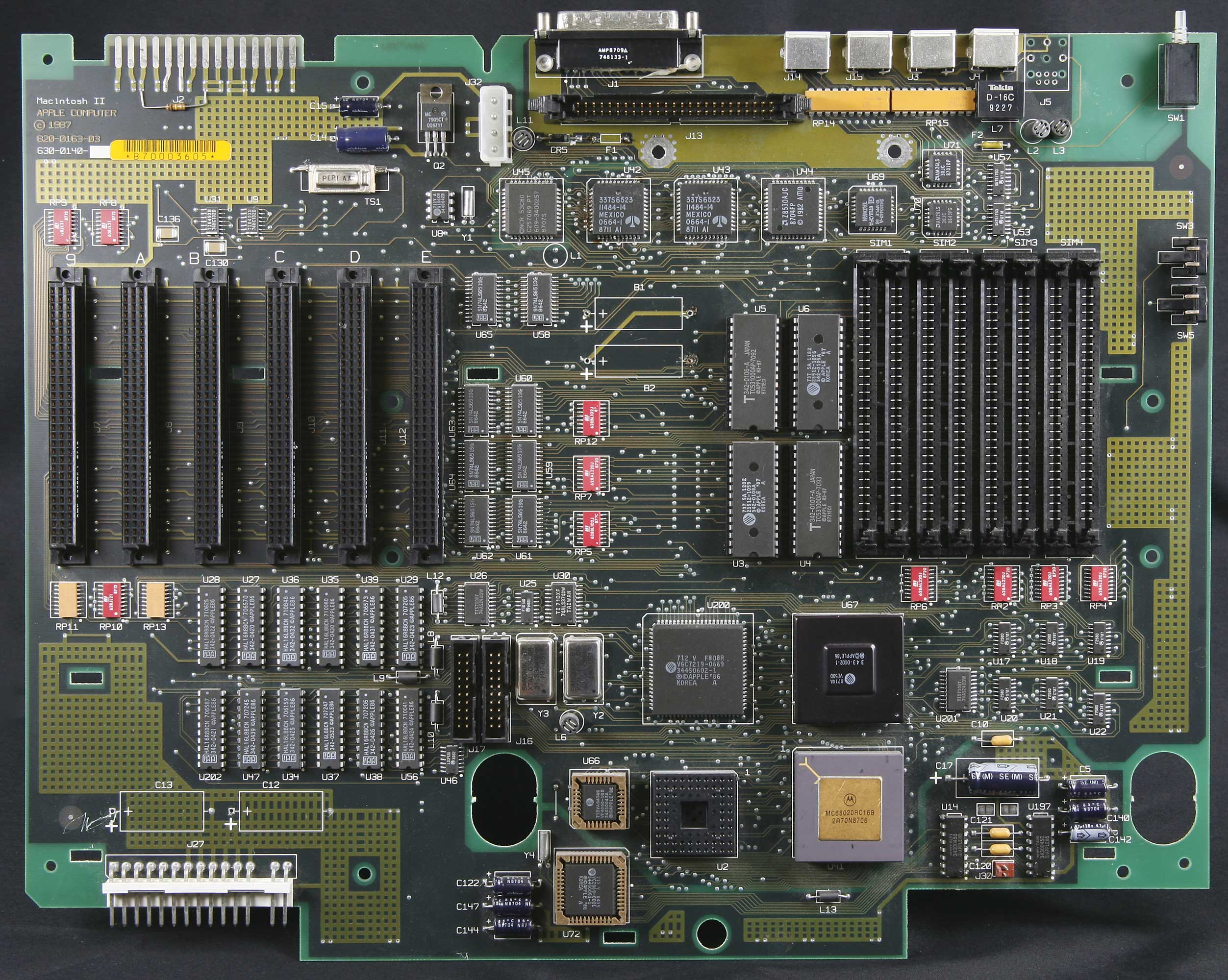 Apple Macintosh - Macintosh II motherboard - late model ca. 1987 Comments Missing two large capacitors from the lower left corner and batteries from the middle. This contains a Motorola 68020 processor, lots of Apple custom ASICS, and has an empty socket for a Motorola support chip. Could someone with the schematic for this board please identify the main components and ports.